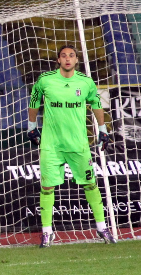 Hakan Arıkan (born 17 August 1982 in Karamürsel, Kocaeli) is a Turkish footballer. He currently plays for Beşiktaş. His role is goalkeeper.